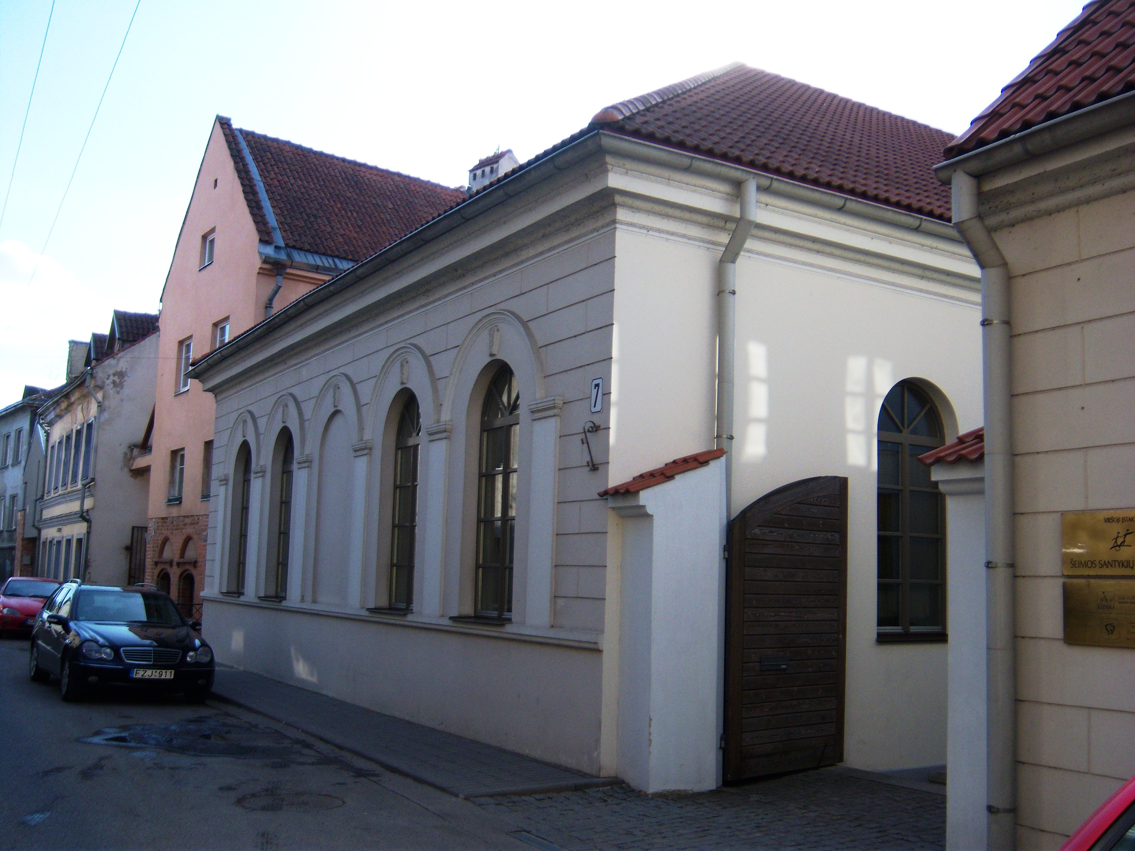 Former synagogue, L. Zamenhofo street 7 , Kaunas, Lithuania